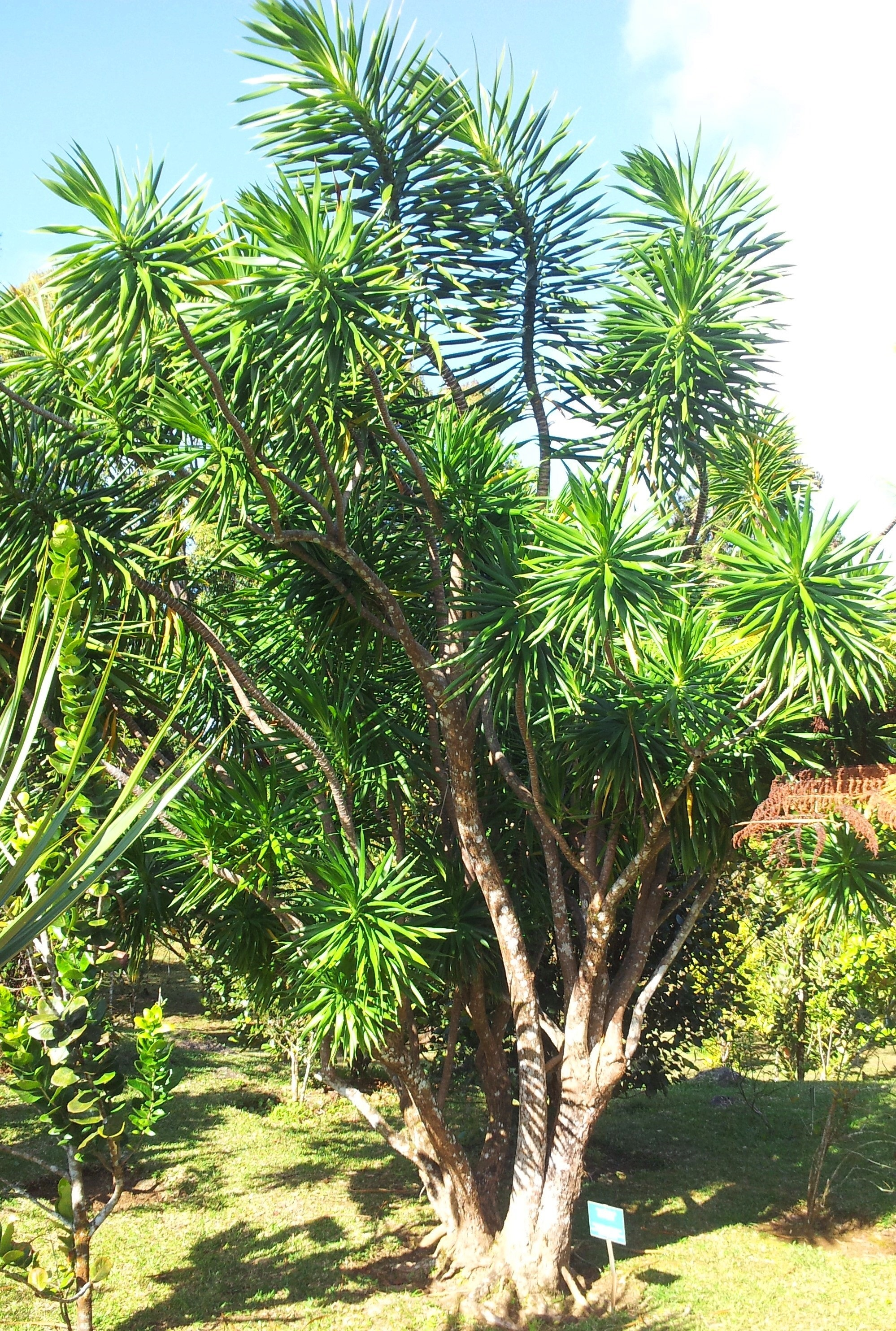 Dracaena reflexa - floribunda - bois de chandelle - MonVert Arboretum